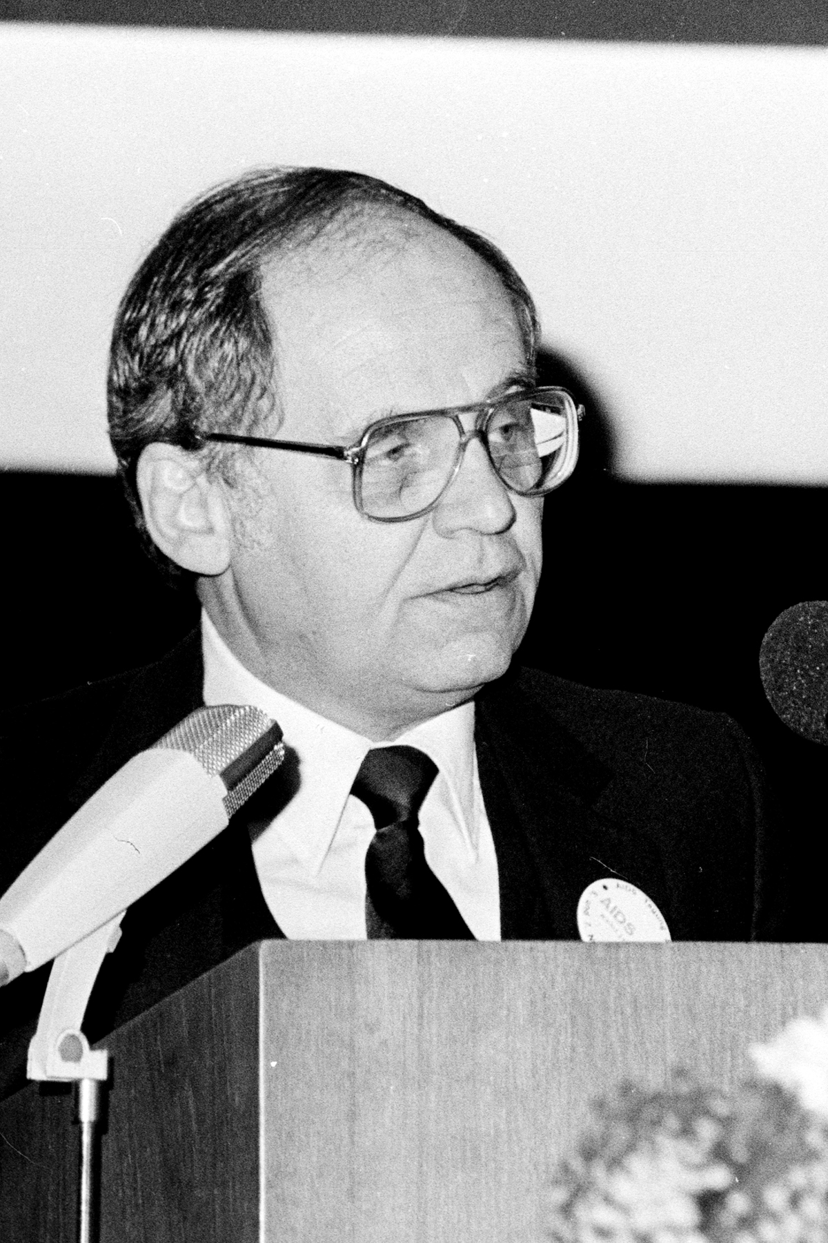 Erwin J. Haeberle is a German social scientist and sexologist. Oral presentation at AIDS Conference in Berlin, 1986, Nov. 7